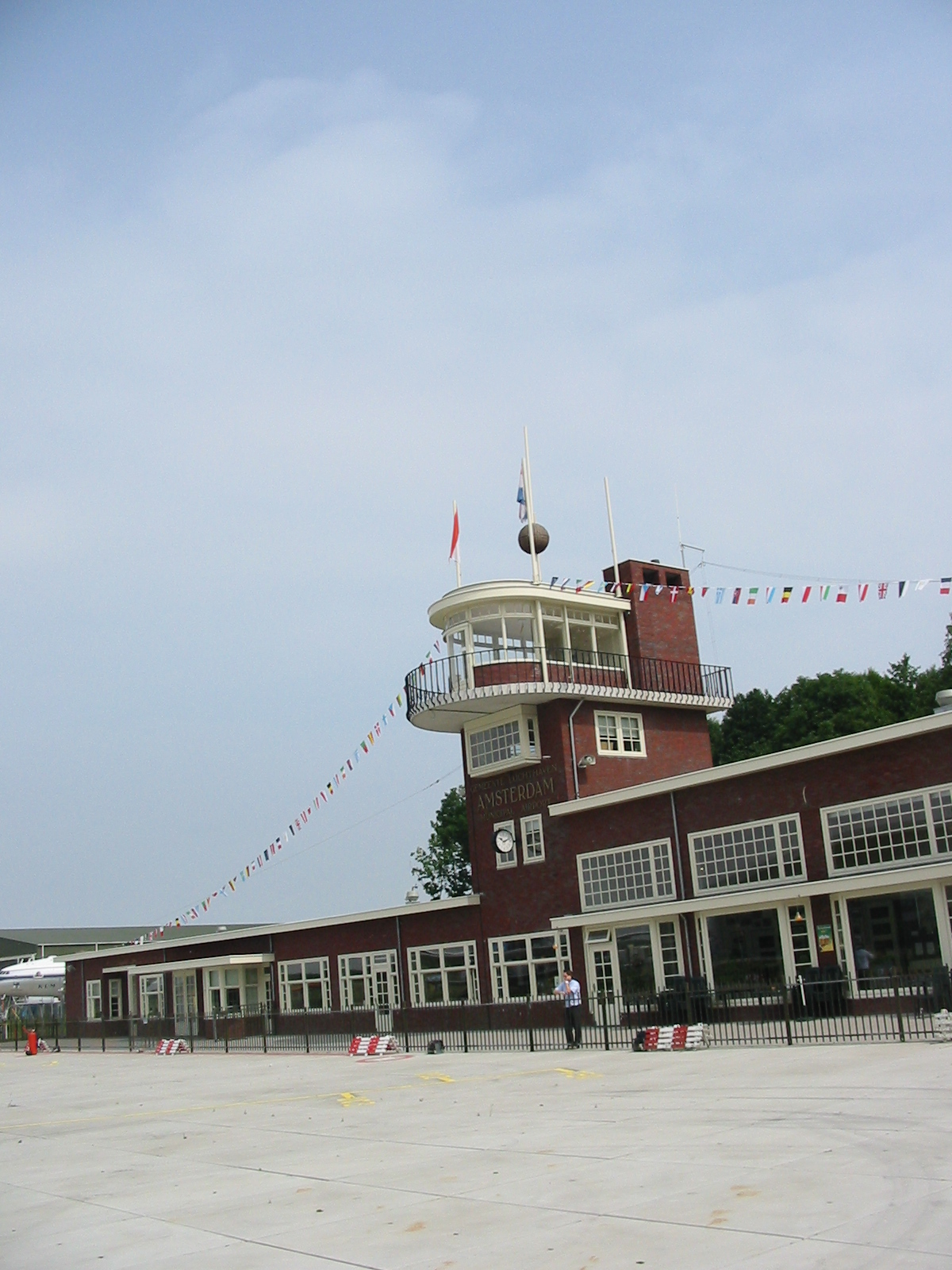 Rebuilt airport building of Schiphol, at the Aviodrome Lelystad The Netherlands